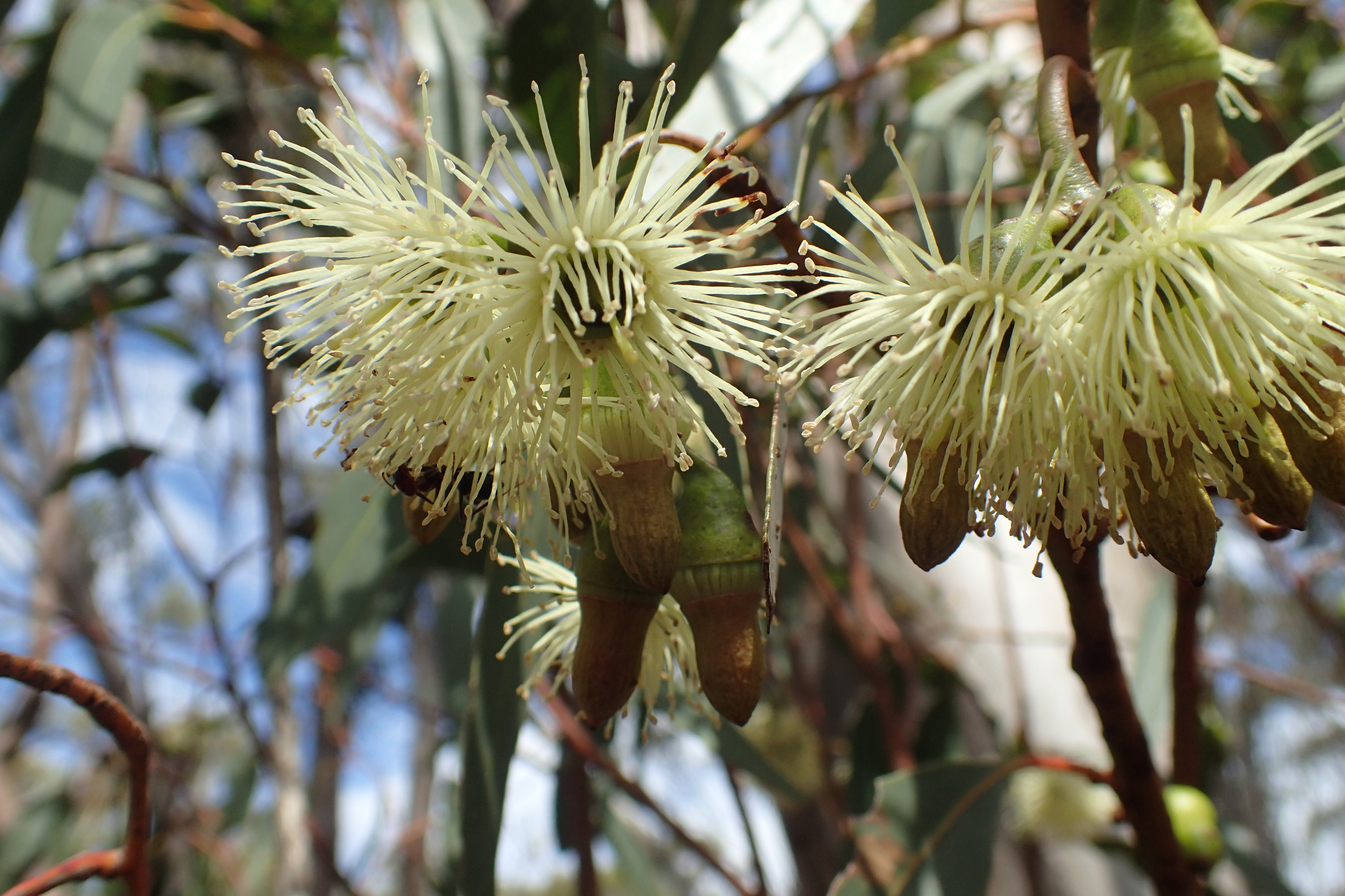 Flowers of Eucalyptus astringens in Helms Arboretum, near Esperance, W.A.